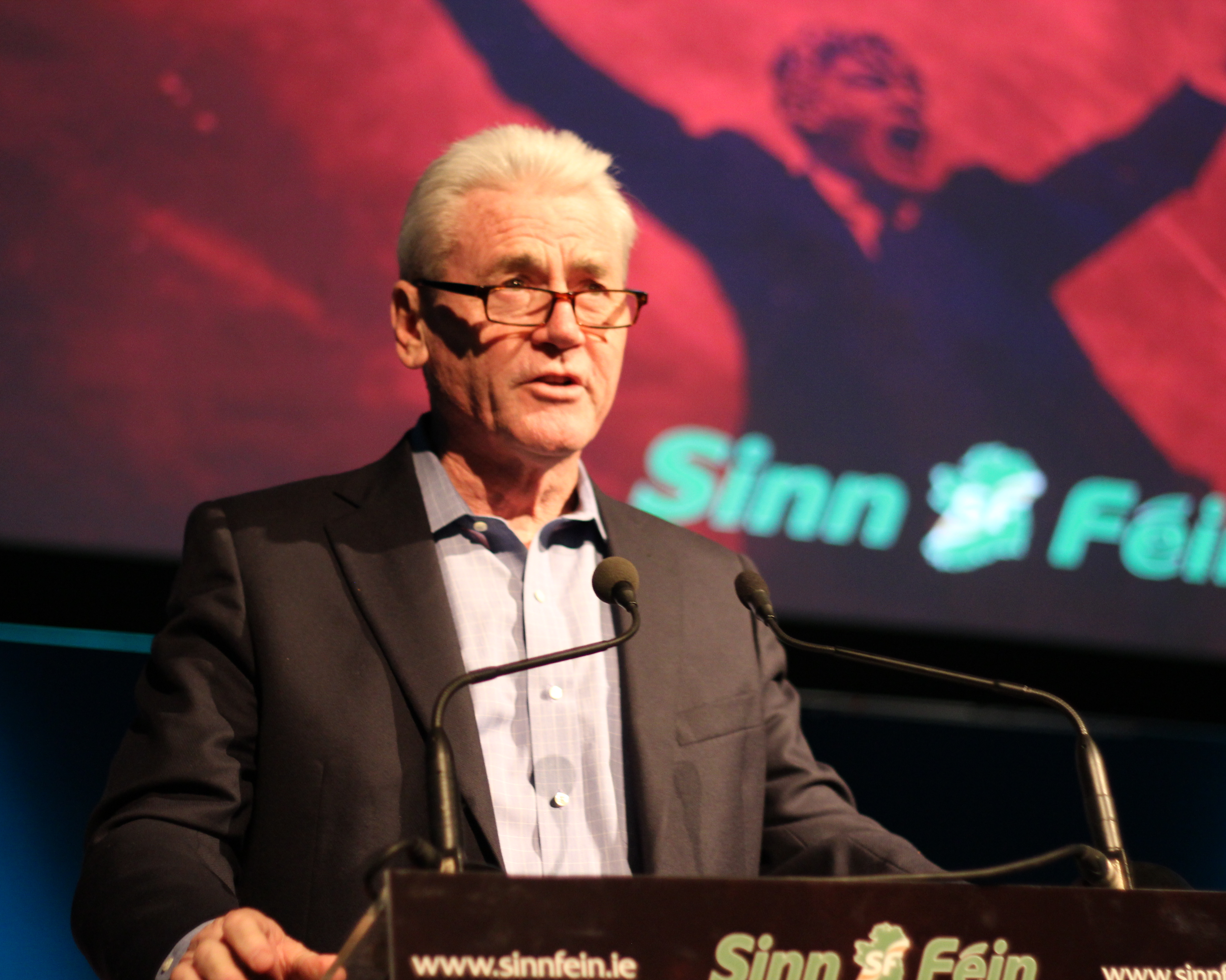 Terry O'Sullivan of LIUNA at the In Common Cause trade union event, a US and Irish Trade Union event in the Mansion House, Dublin organised by Sinn Féin to mark the 100th anniversary of the 1913 Lockout.